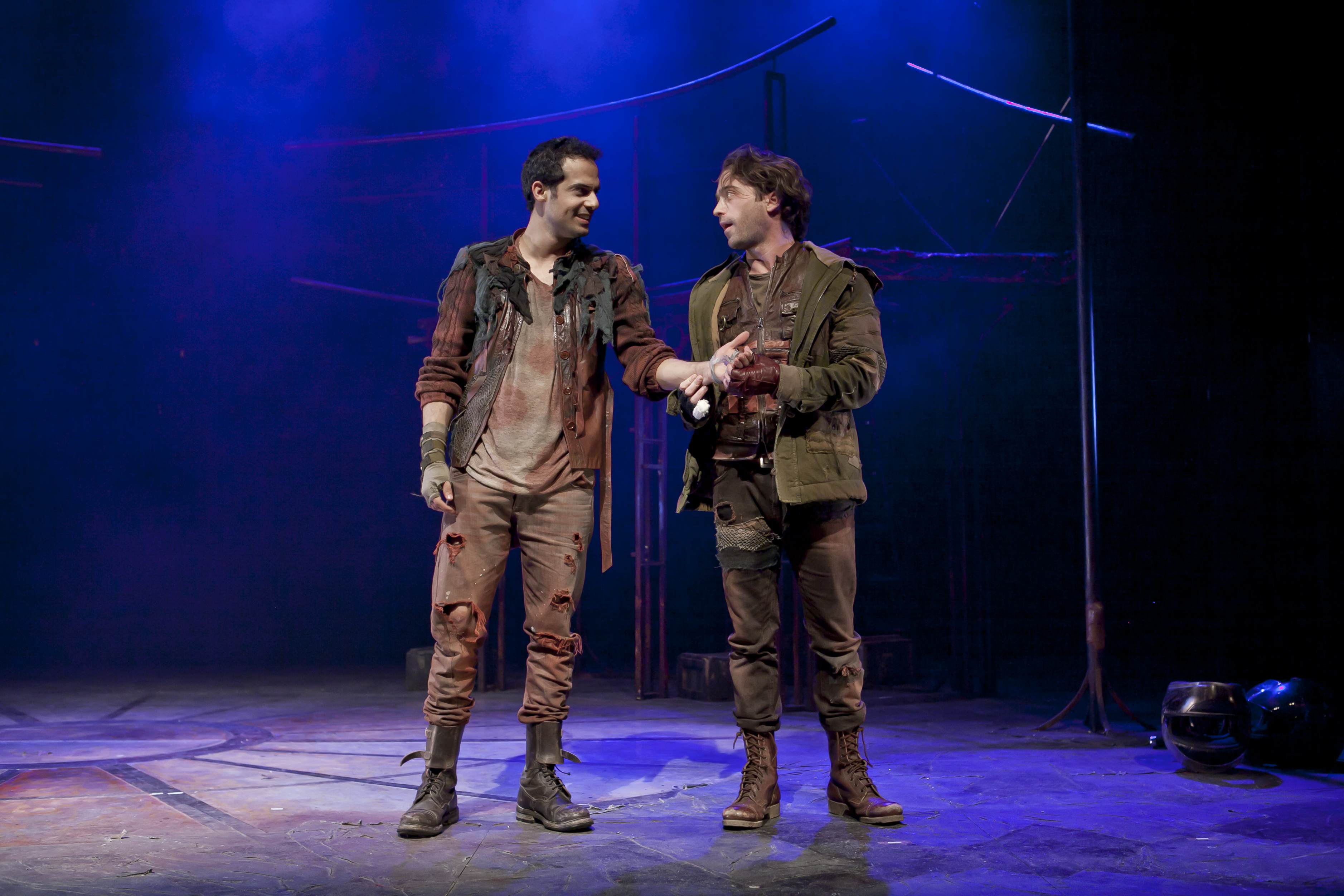 (Left to Right): Yogev Yefet and Tom Avni in Beersheba Theatre's "Romeo and Juliet"; Director: Irad Rubinstein; Lighting designer: Ziv Voloshin